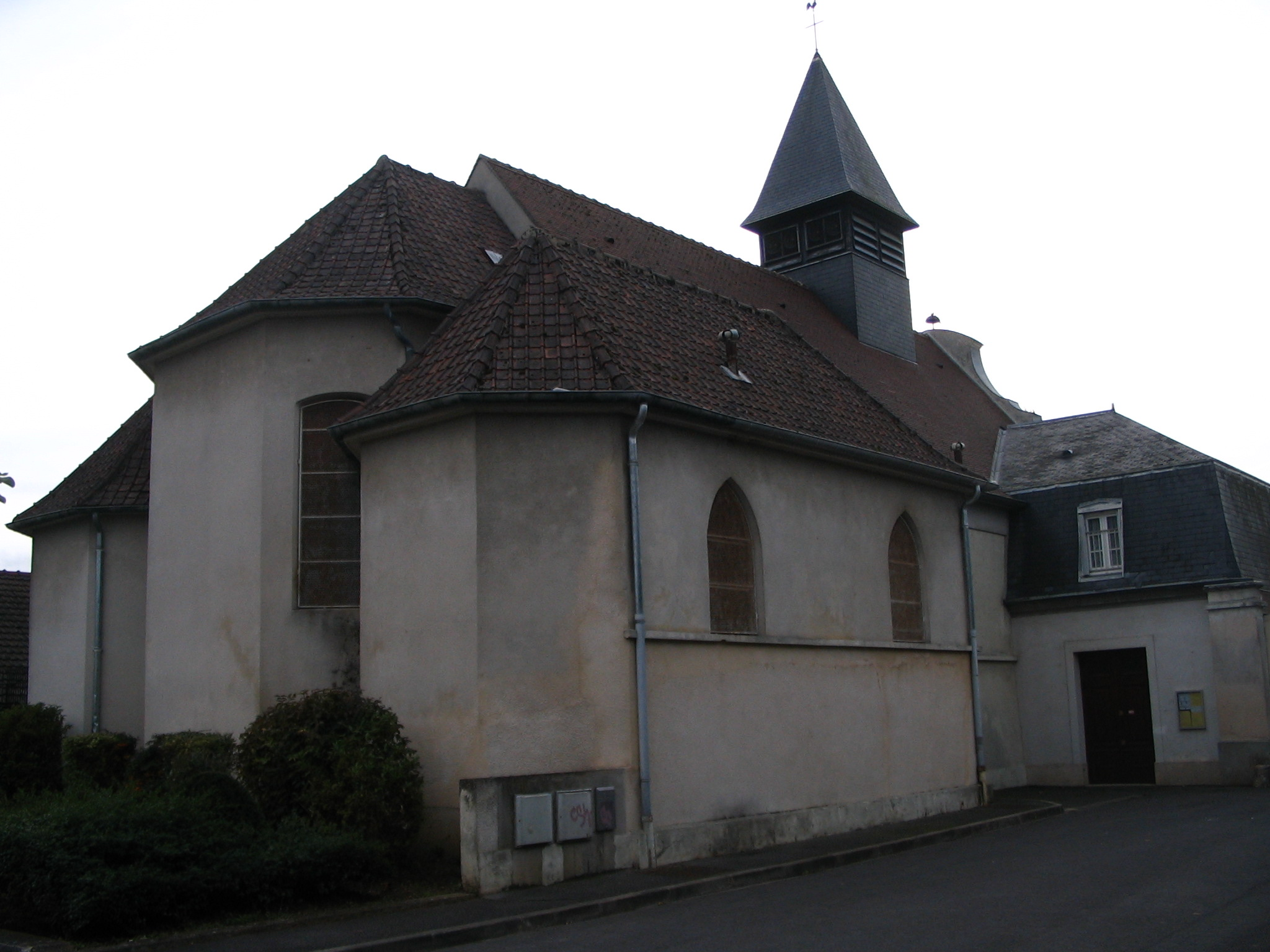 The Roman Catholic church of Condé-Sainte-Libiaire, Seine-et-Marne, France.